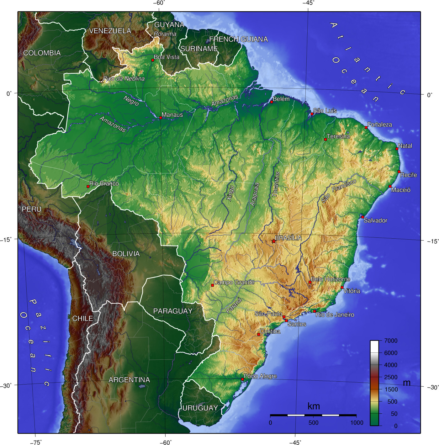 Bild:Brasilien_topo.jpg